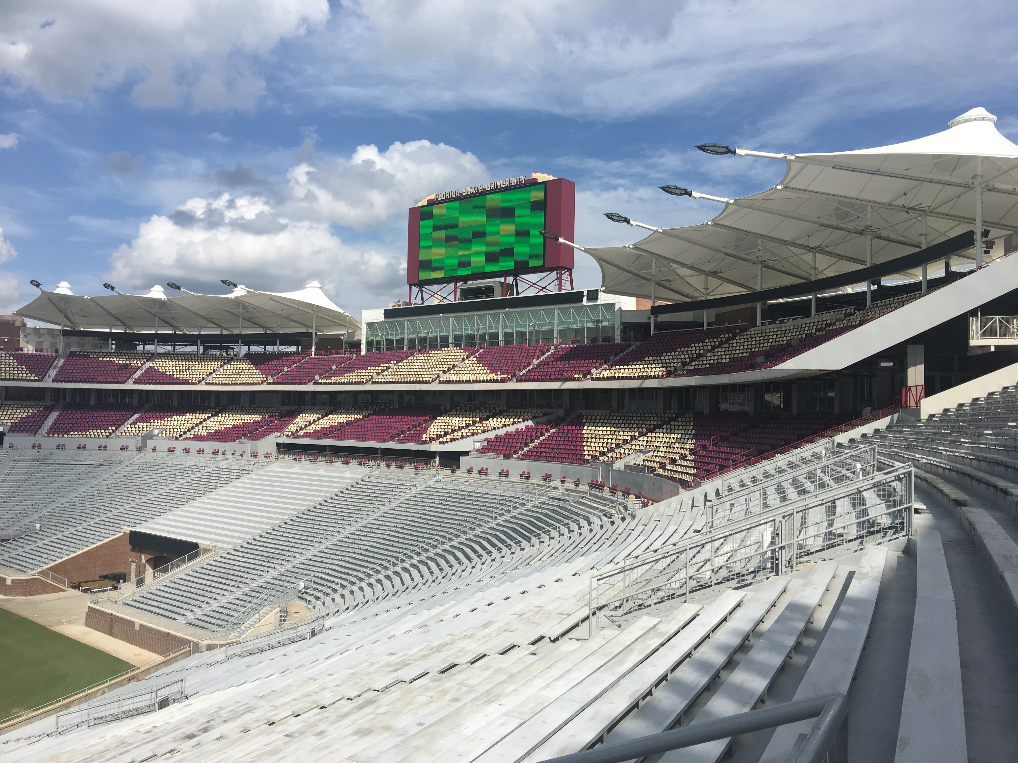 Champions Club renovations at Doak Campbell Stadium